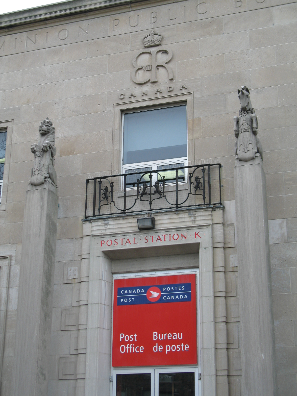 This was the site of Montgomery's Tavern, which played a prominent role in the Upper Canada rebellion of 1837. Montgomery and Yonge, December 2006. Now a post office. The only building in Canada built with Edward VIII's royal cypher prior to his abdication. Toronto, Canada.